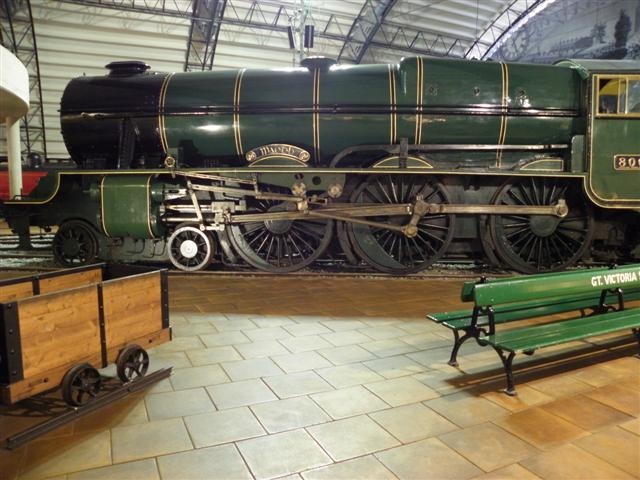 GSR Class 800 4-6-0 steam locomotive 800 Maeḋḃ ("Maeve") in the Ulster Transport Museum, Cultra, Co. Down, Northern Ireland